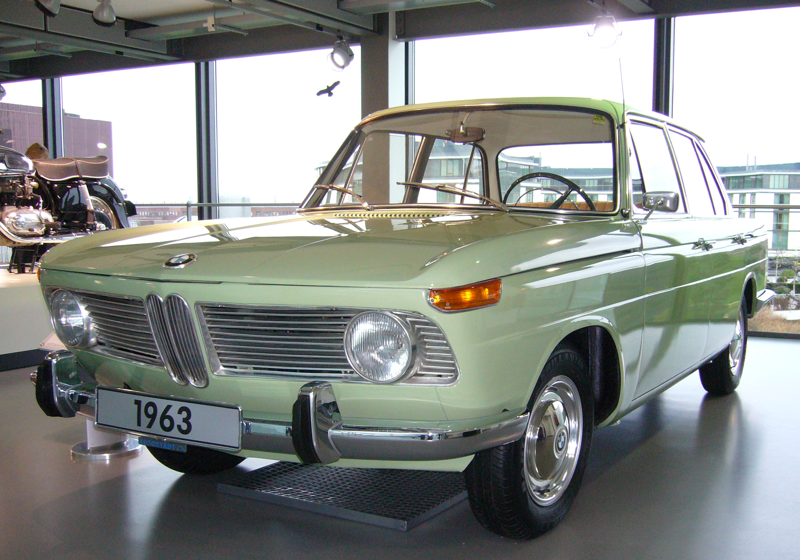 BMW 1500 at VW Autostadt ZeitHaus, Wolfsburg